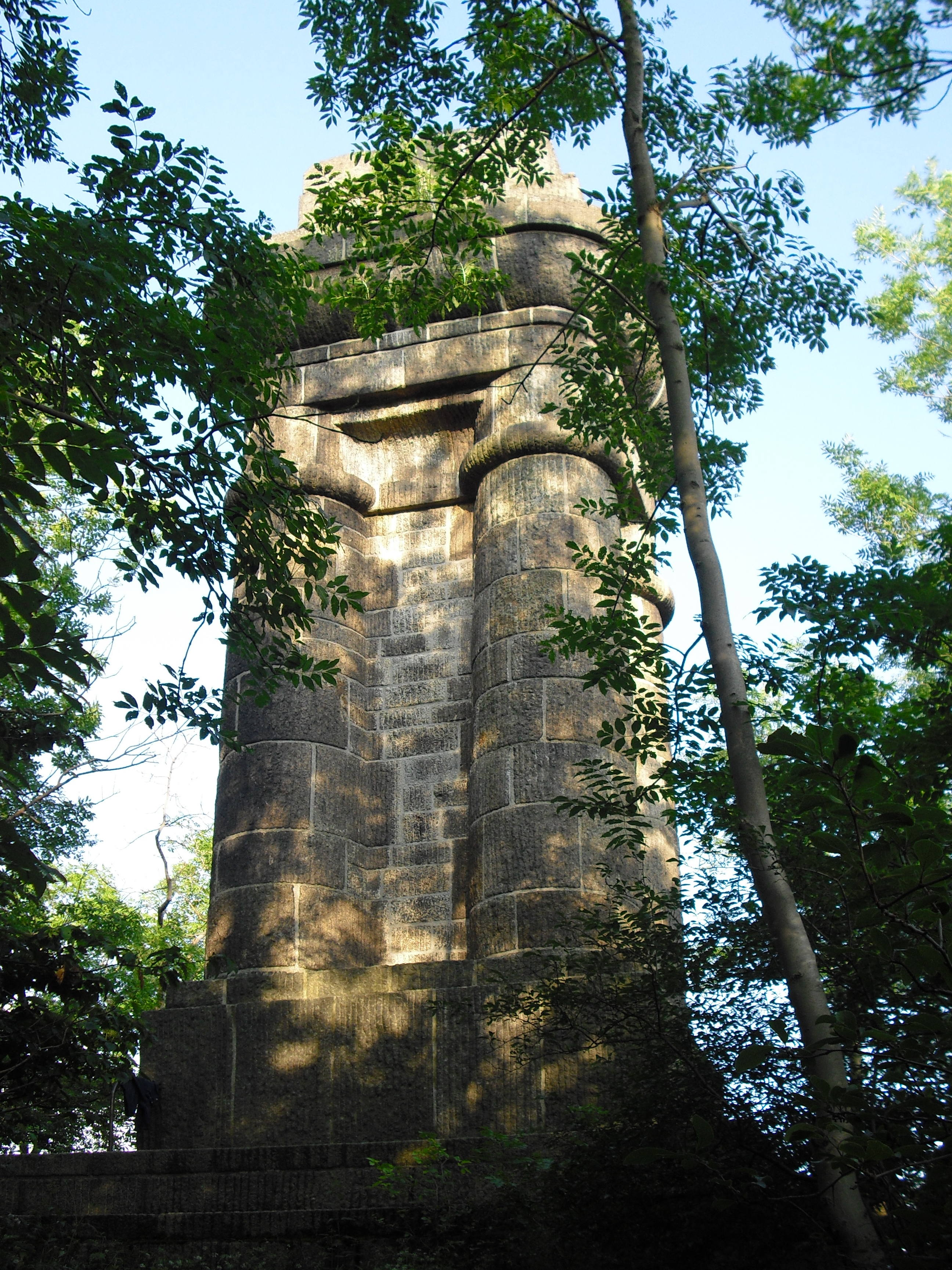 Bismarck tower on Landeskrone in Görlitz, Germany